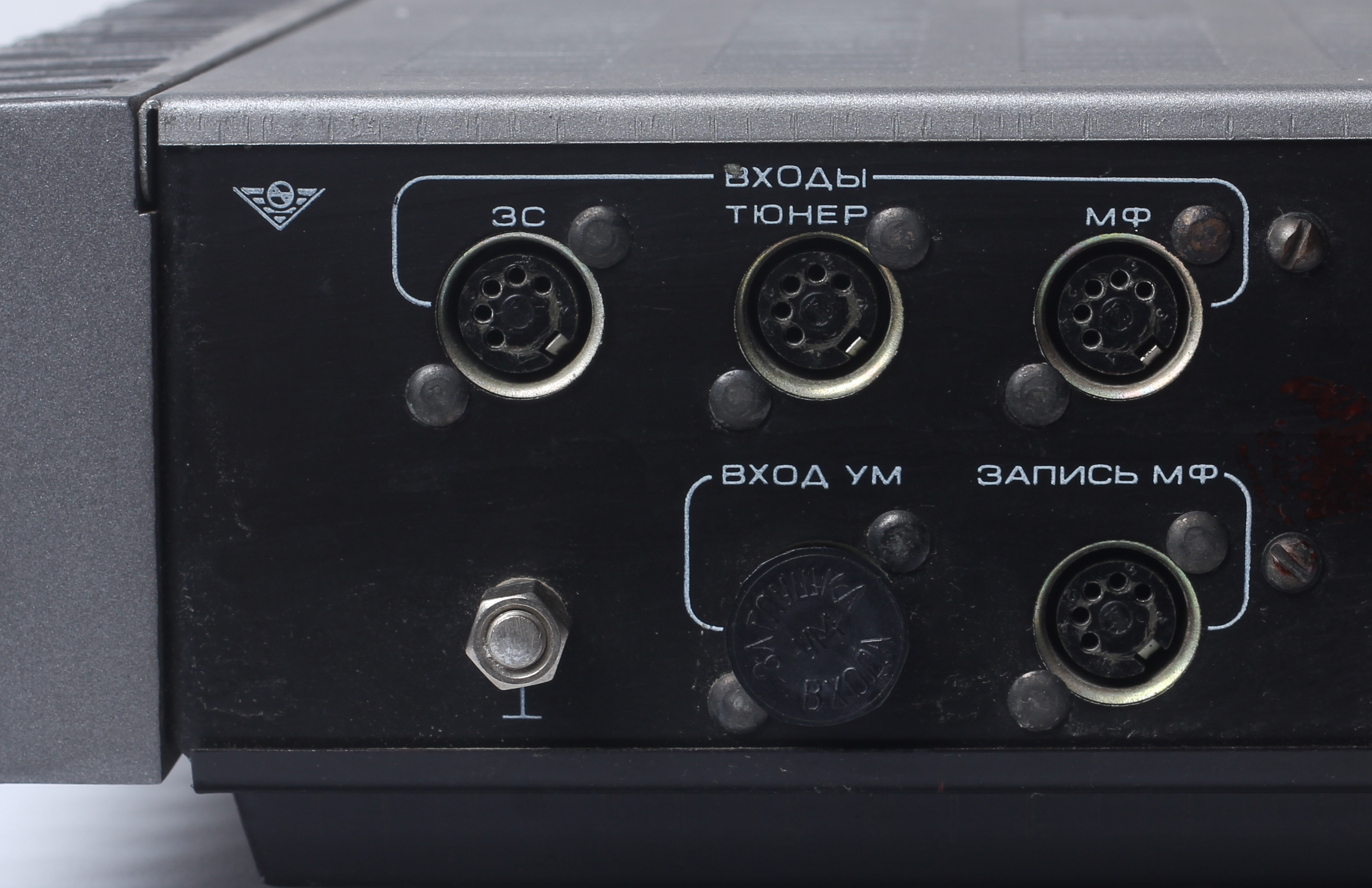 Audio connectors USSR